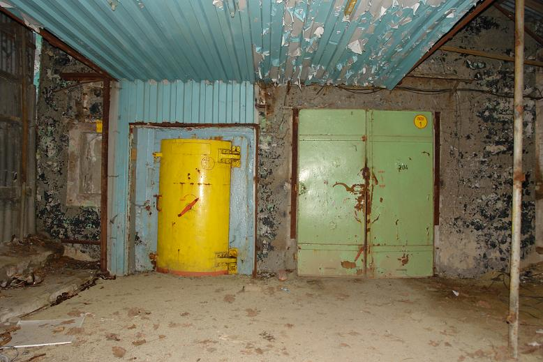 Main airlock